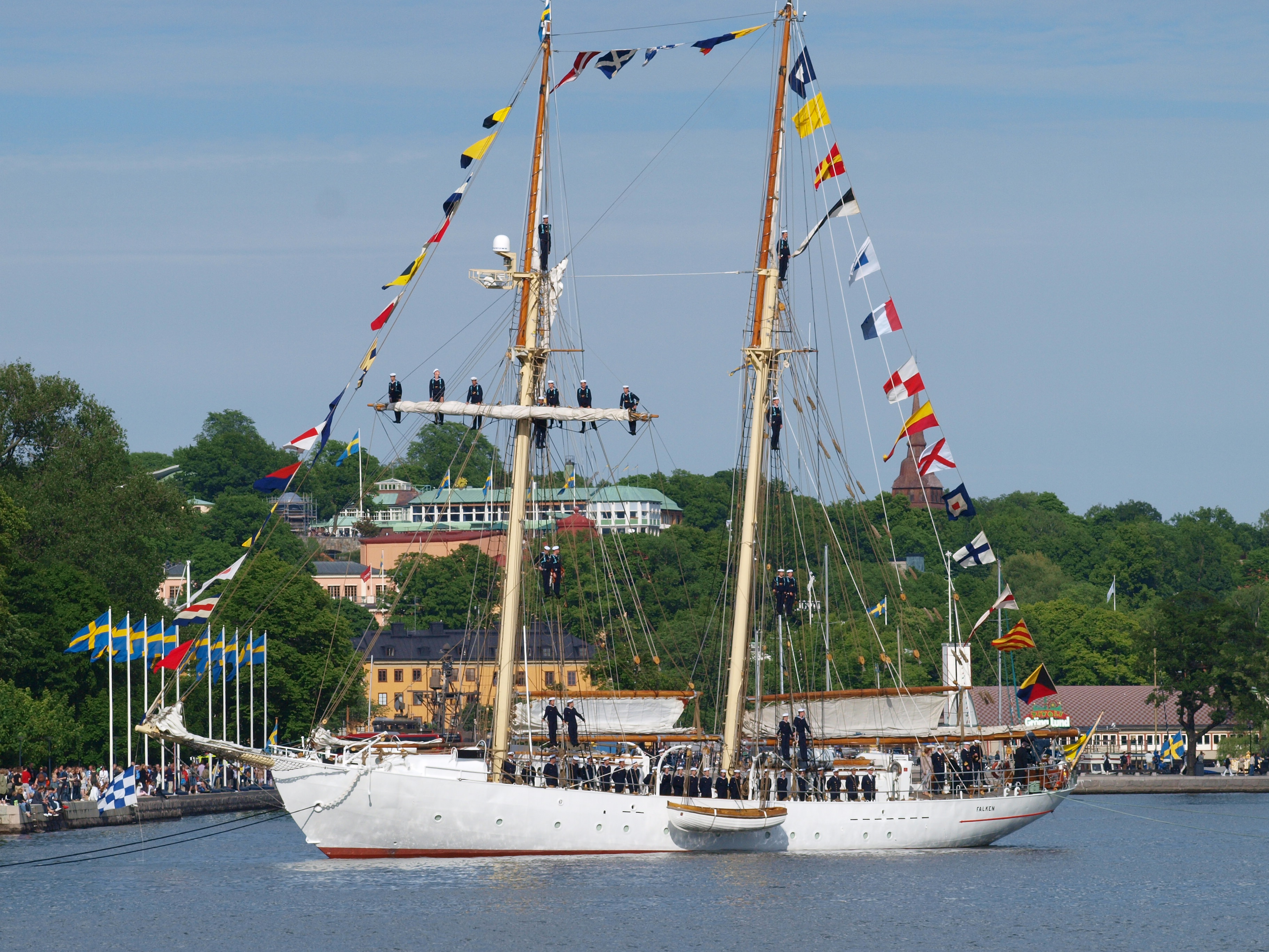 HMS Falken at royal wedding at the royal wedding between Victoria and Daniel